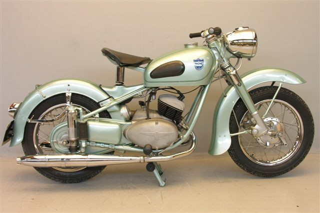 Motorcycle Adler MB 200 1954